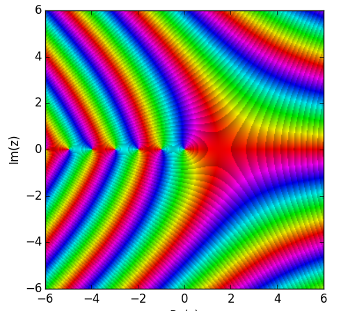 Representation of Gamma function in the complex plane. Each point z is colored according to the argument of Γ ( z ) {\displaystyle \Gamma (z)} . The contour plot of the modulus | Γ ( z ) | {\displaystyle |\Gamma (z)|} is also displayed.